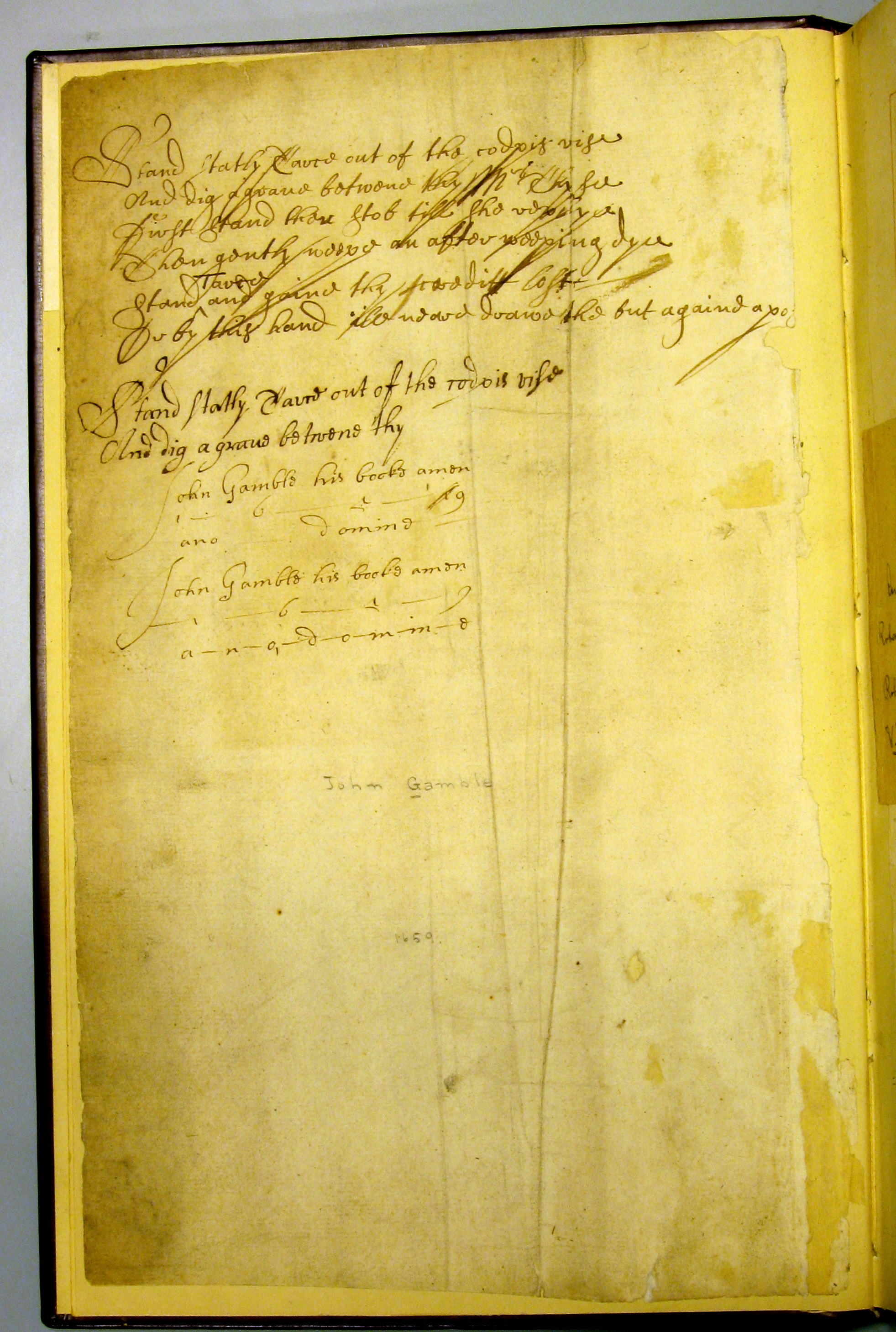 Folio 1v of Drexel 4257 with the inscription "John Gamble, his booke"